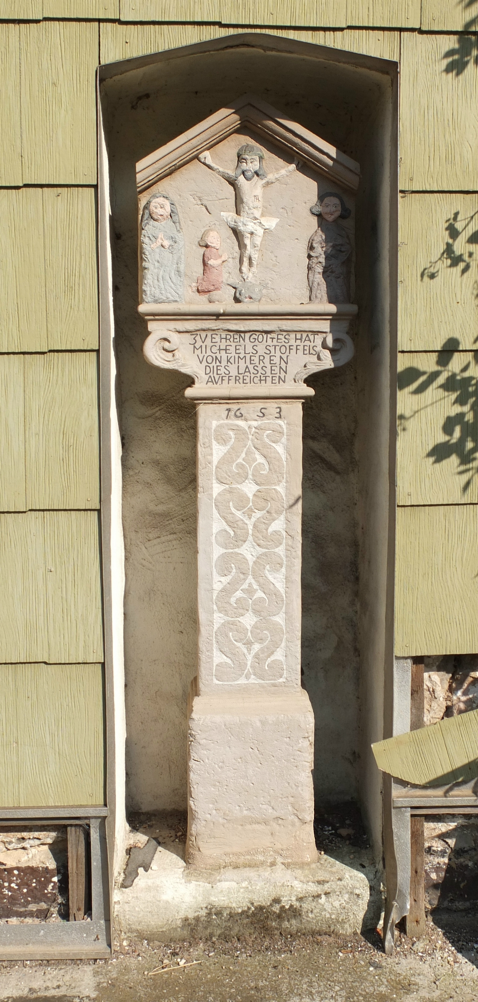 Wayside shrine in Mannebach-Kümmern, Germany, dated 1653. This is a photograph of an architectural monument.It is on the list of cultural monuments of Mannebach-Kümmern